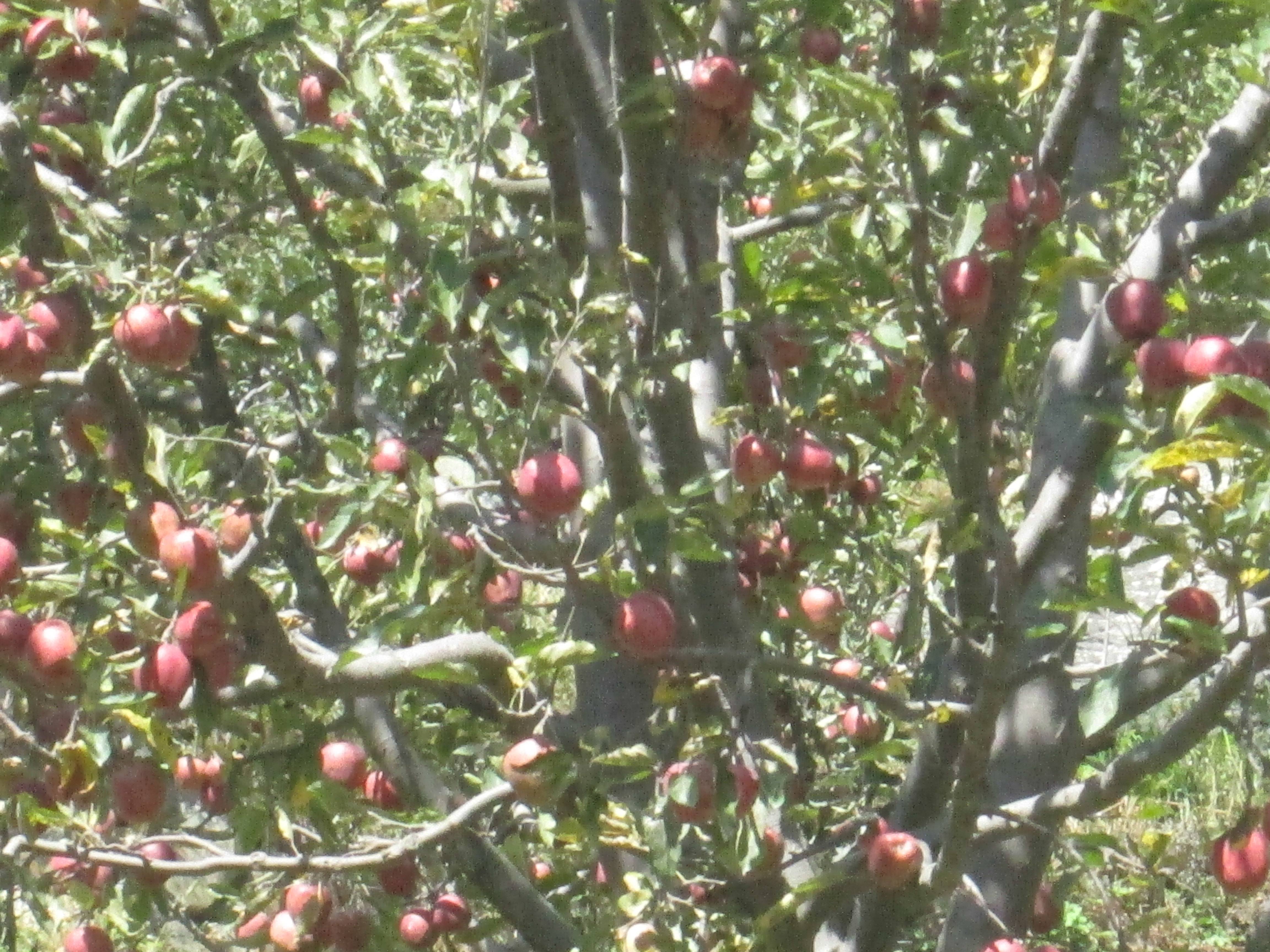 This picture of an apple tree was taken during Kalindi khal trek on the way to Gangotri.